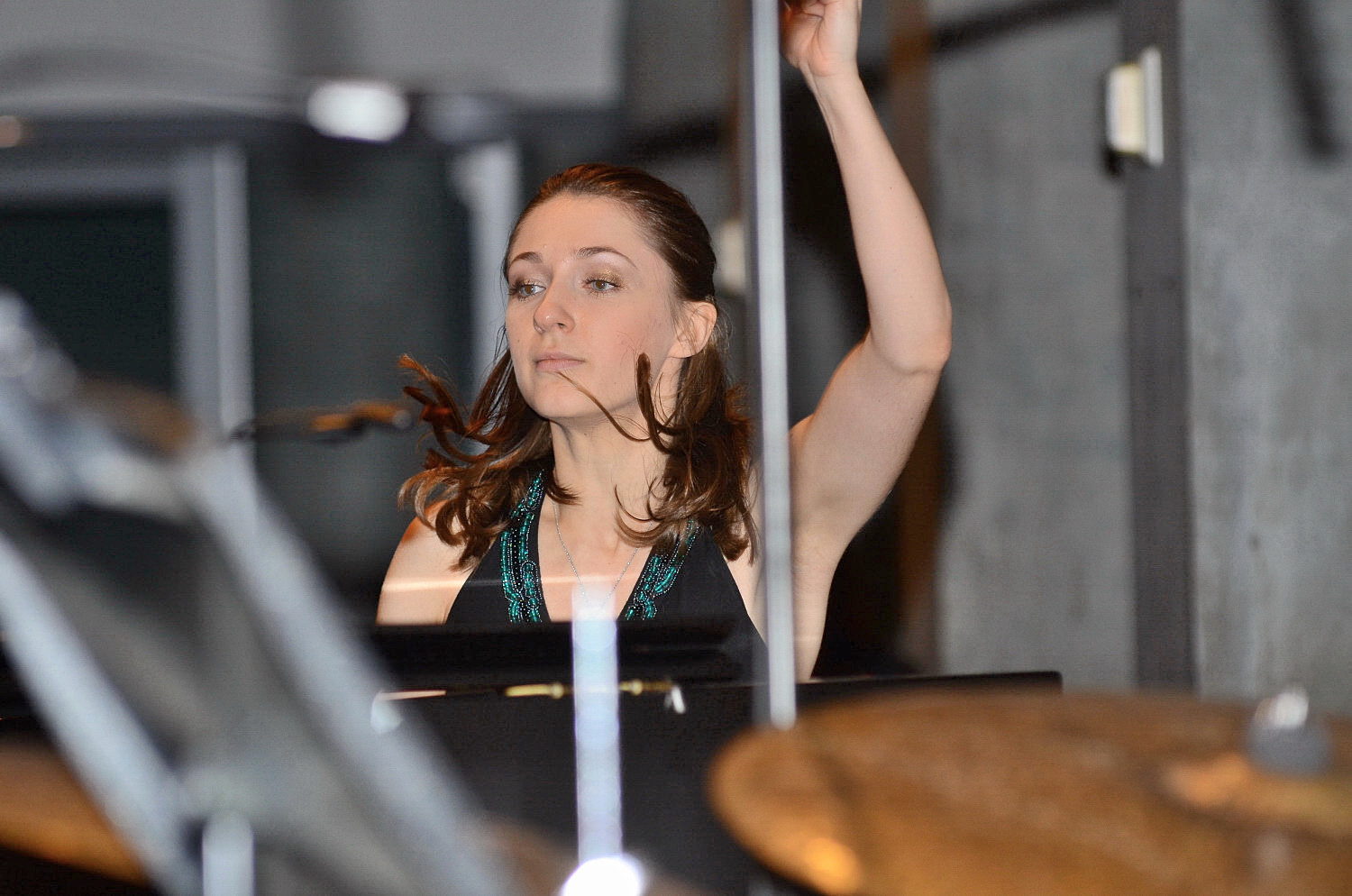 Sonya Belousova performing the piano pieces by Grammy Award winner Jorge Calandrelli at the 2014 Golden Score Awards